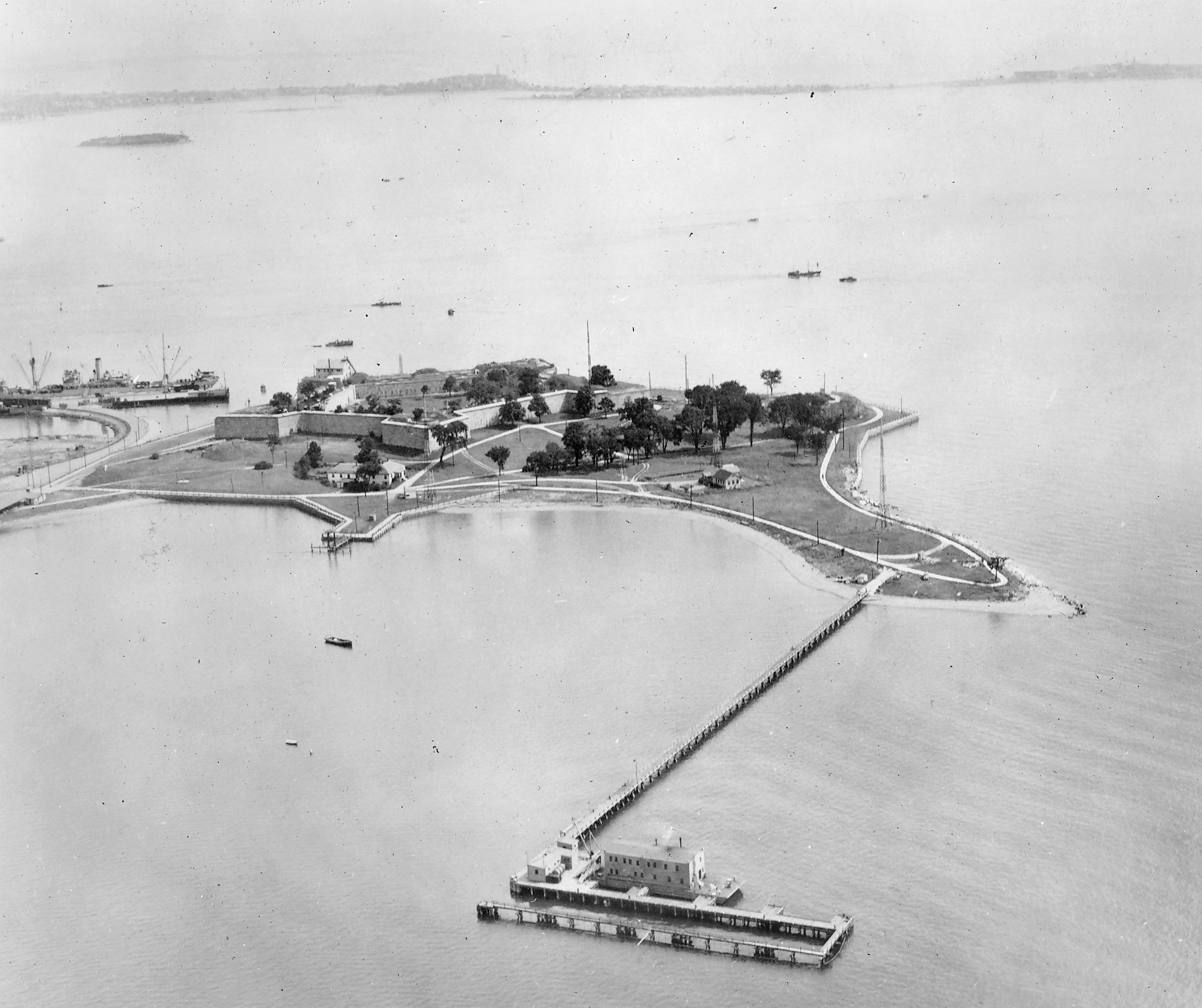 Aerial view of the Castle Island with Fort Independence in Boston habour, Massachusetts (USA), circa 1942.